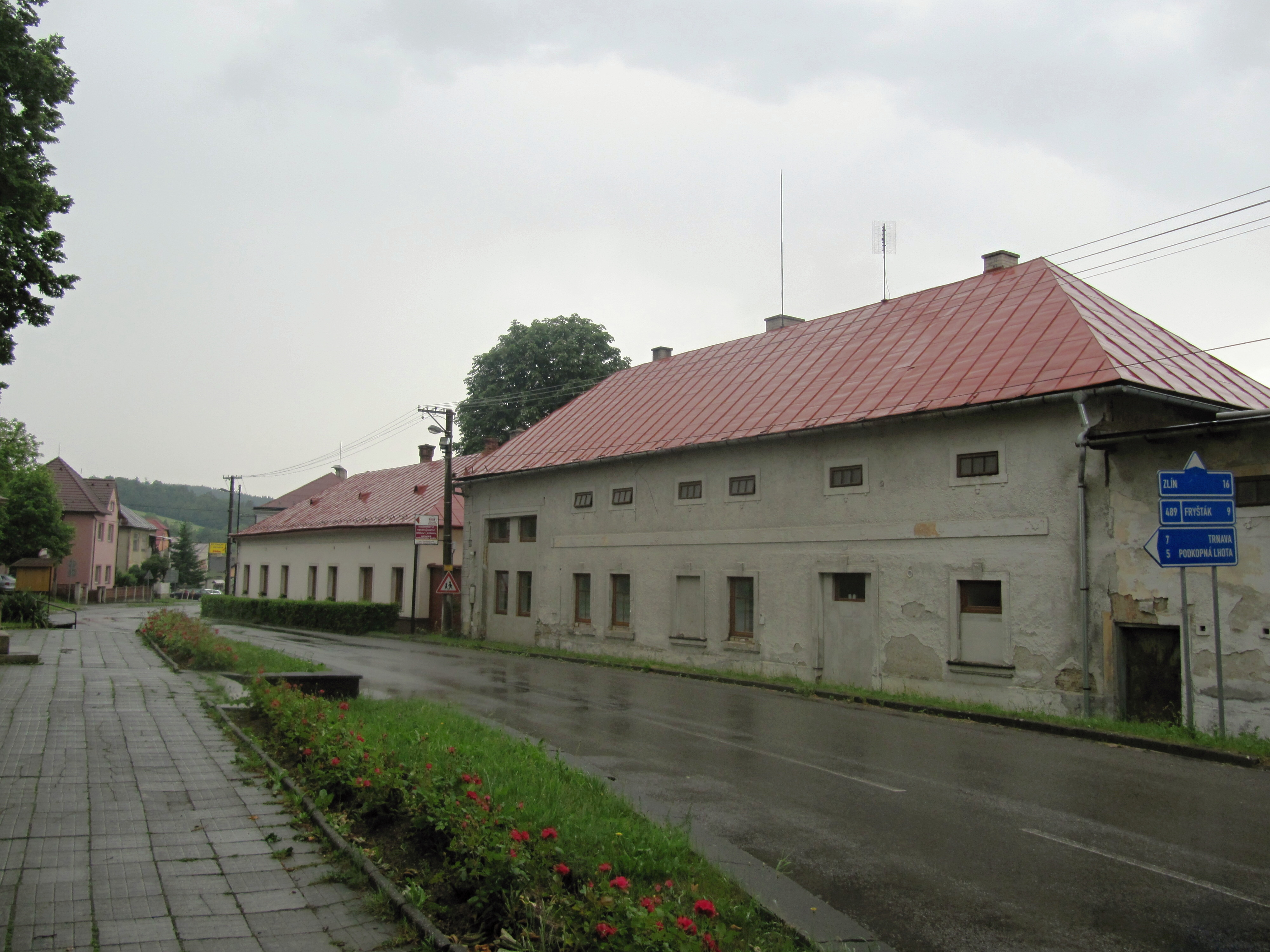 Kašava in Zlín District, Czech Republic. Center of the village, in the front of church. This photograph was taken within the scope of the third year of the 'Czech Municipalities Photographs' grant.